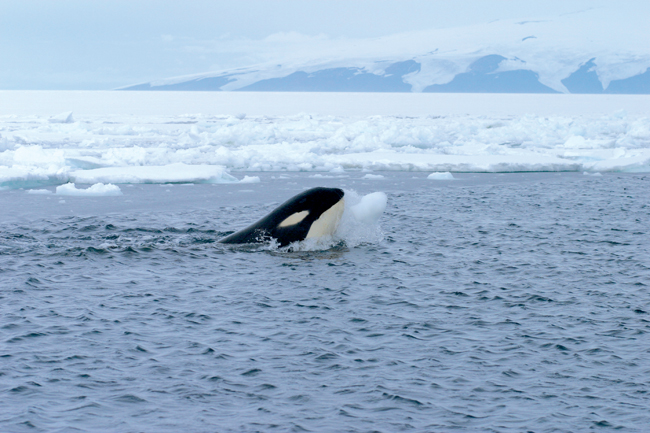 A killer whale in the southern Ross Sea.